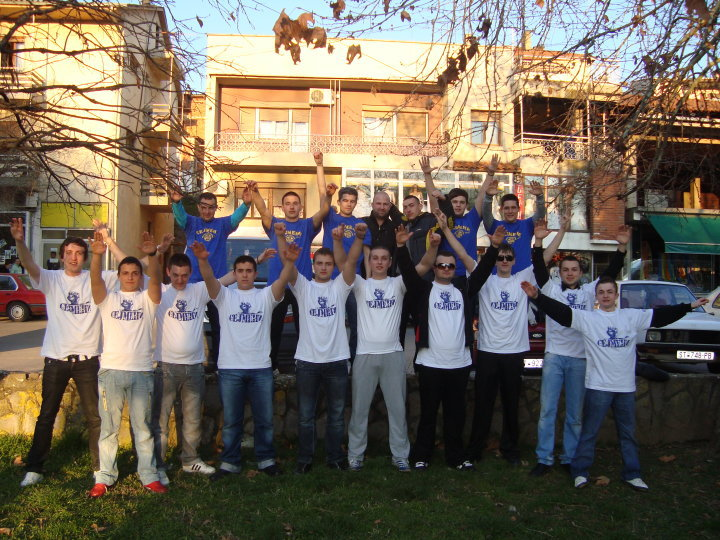 Sejmeni - FC Osogovo fan club.